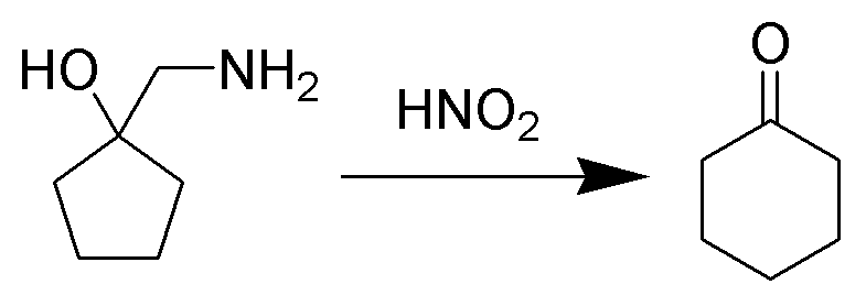 Description: Reaction scheme of the Tiffeneau-Demjanov rearrangement. Author, date of creation: selfmade by ~K, 04 July 2006. Source: - Copyright: Public domain. (PD) Comments: high-resolution b/w PNG; ChemDraw / The GIMP.